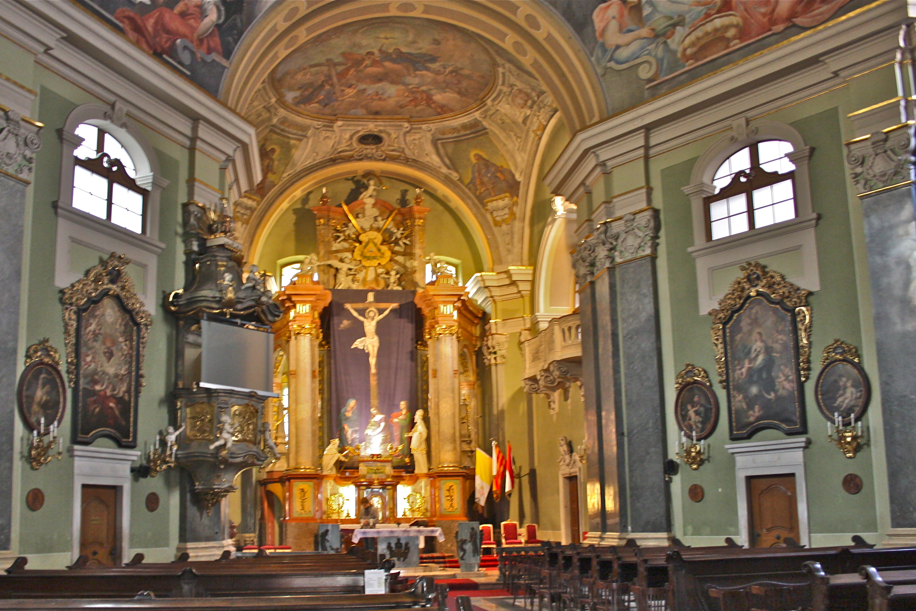 Saint Anne Church, Budapest.